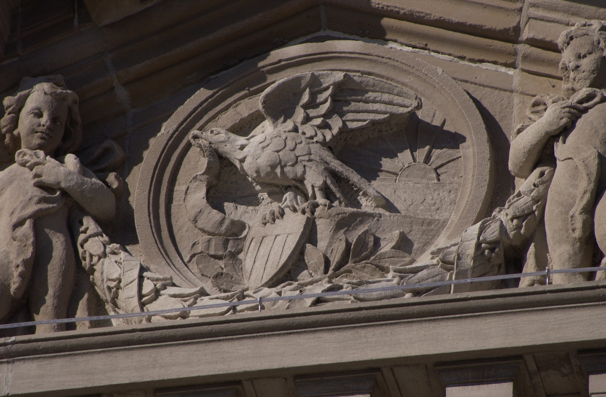 DeKalb County Courthouse, pediment (Seal of Illinois). Sycamore, Illinois, National Register of Historic Places, Sycamore Historic District.